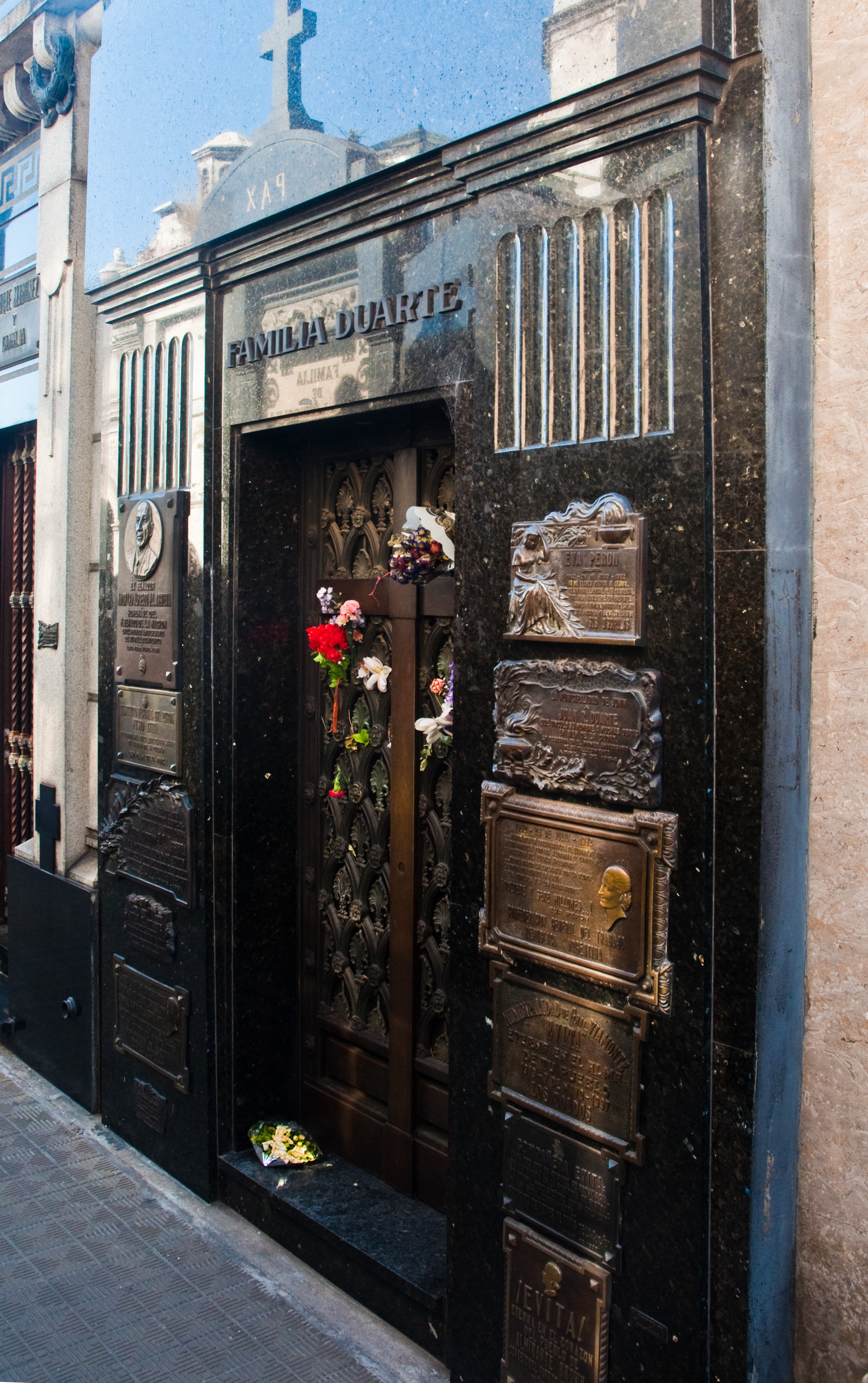 ... only it isn't her's, she is interred in this, the family tomb of the Norte family, her family of origin. I would guess that 70% of the people who come to this cemetery do so specificaly to look at this. Yet it is not marked, and there are no signs. If you come looking for 'Peron' you will miss it. It is the plaques that tell you she is here. But on the day I was here the President of Argentina could still plausibly accuse the former president of fomenting yesterday's riot in Concepcion as a part of a Peronista plot. This country's political tragedy plays on.....